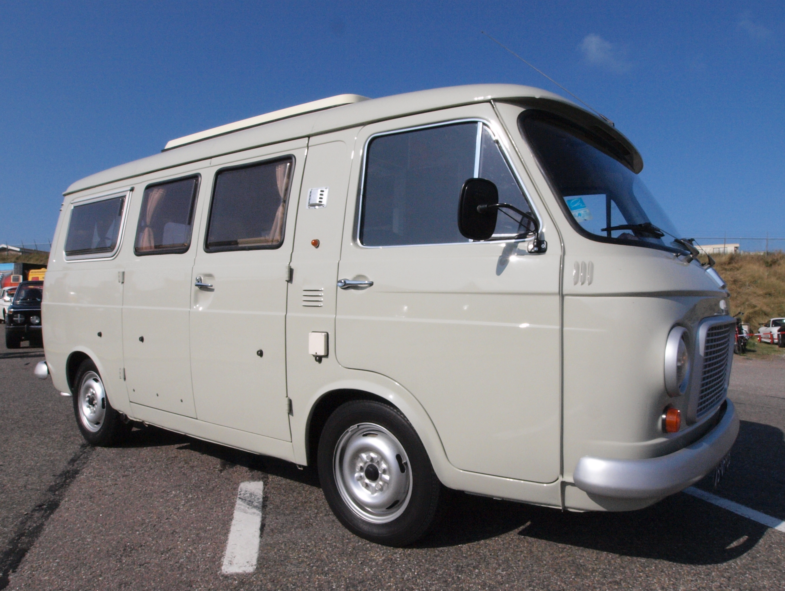 1977 Fiat 238 Photographed at the Nationaal Oldtimer Festival Zandvoort 2009, The Netherlands. OLYMPUS DIGITAL CAMERA